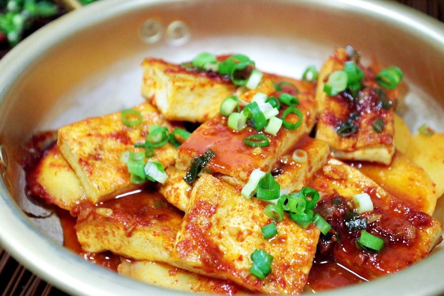 dubu-jorim (braised tofu)